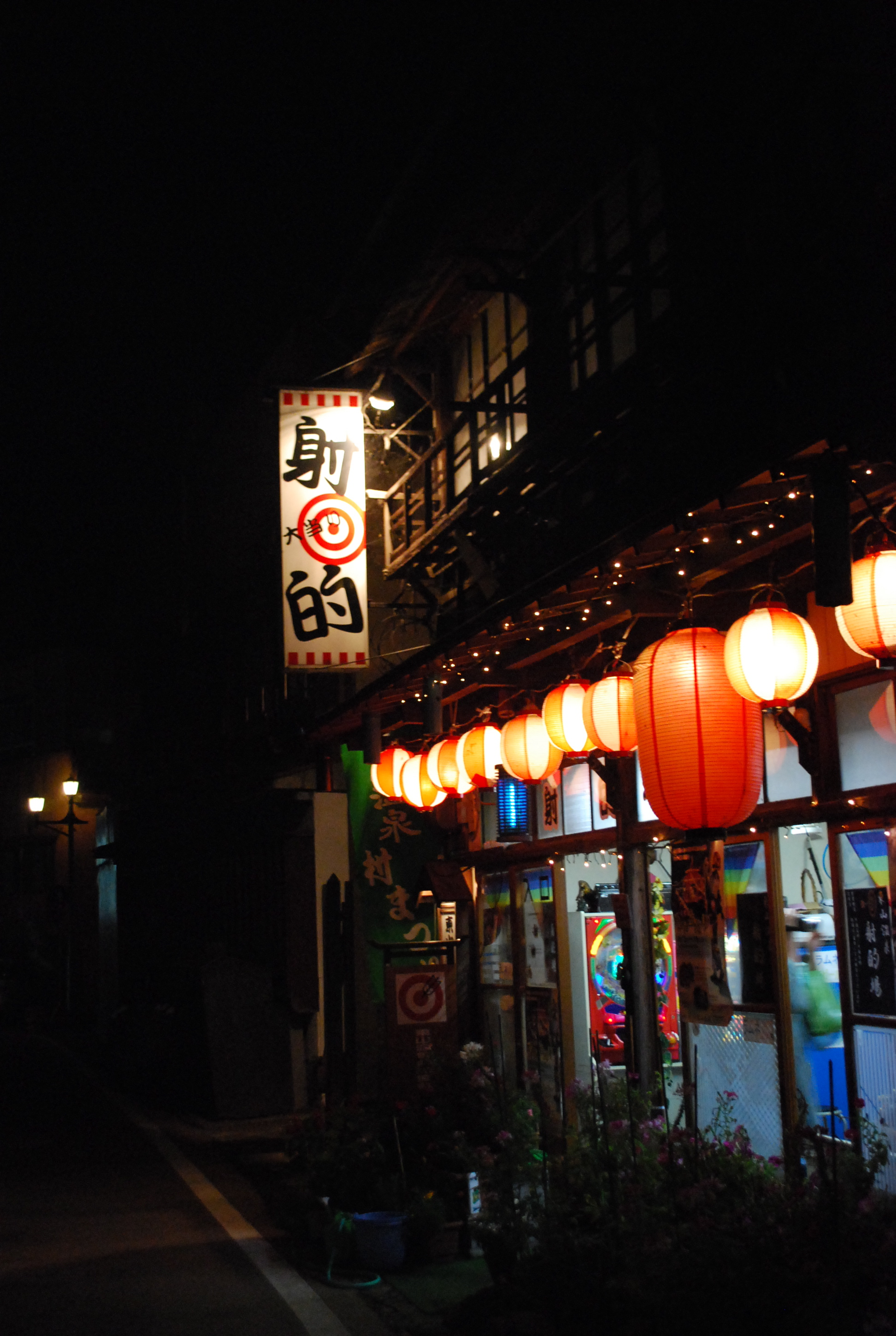 Bon-odori festval at Higashiyama Onsen (Fukushima).